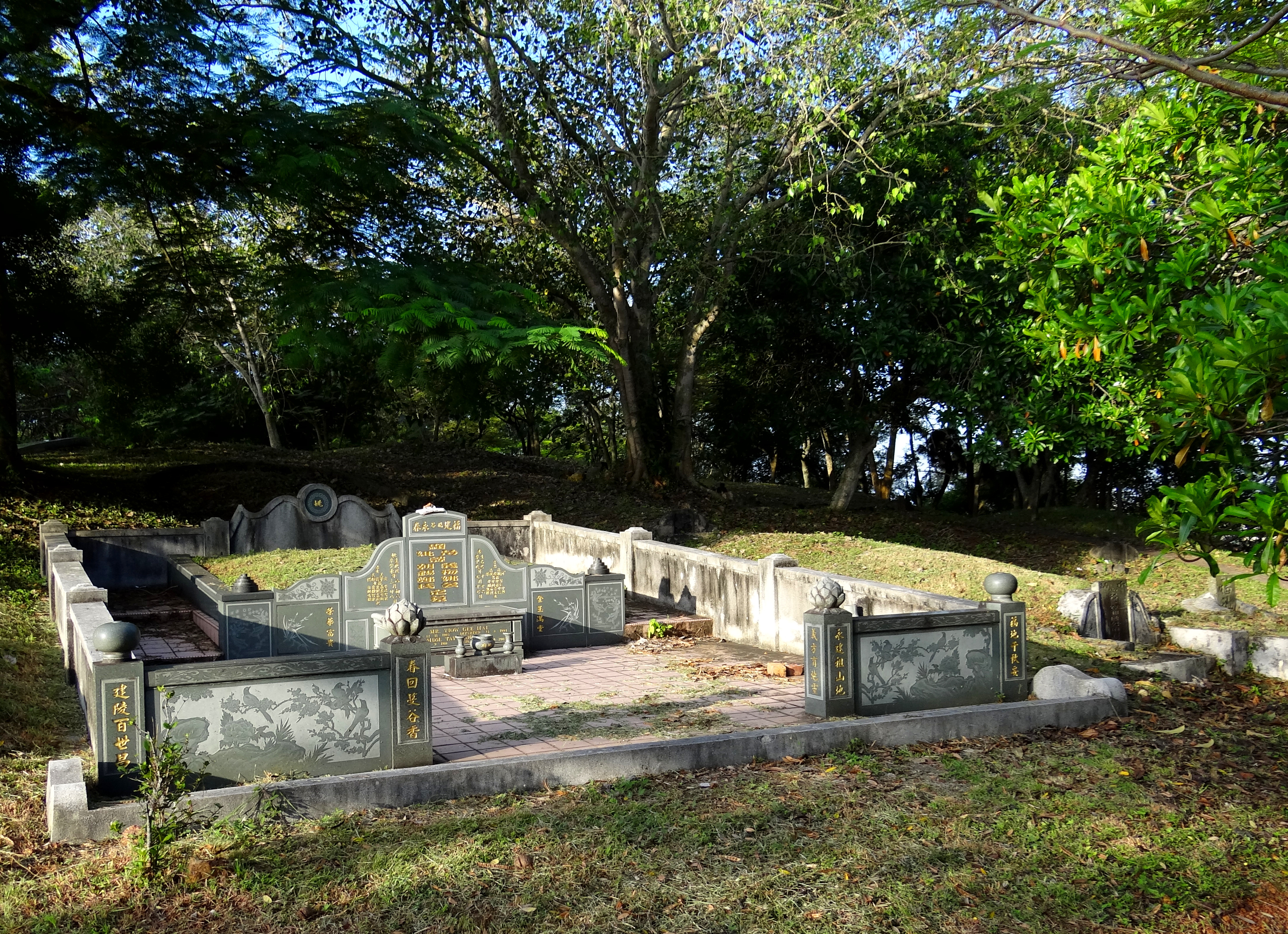 A typical, although better maintained than most, grave on Bukit Cina in Malacca, Malaysia.